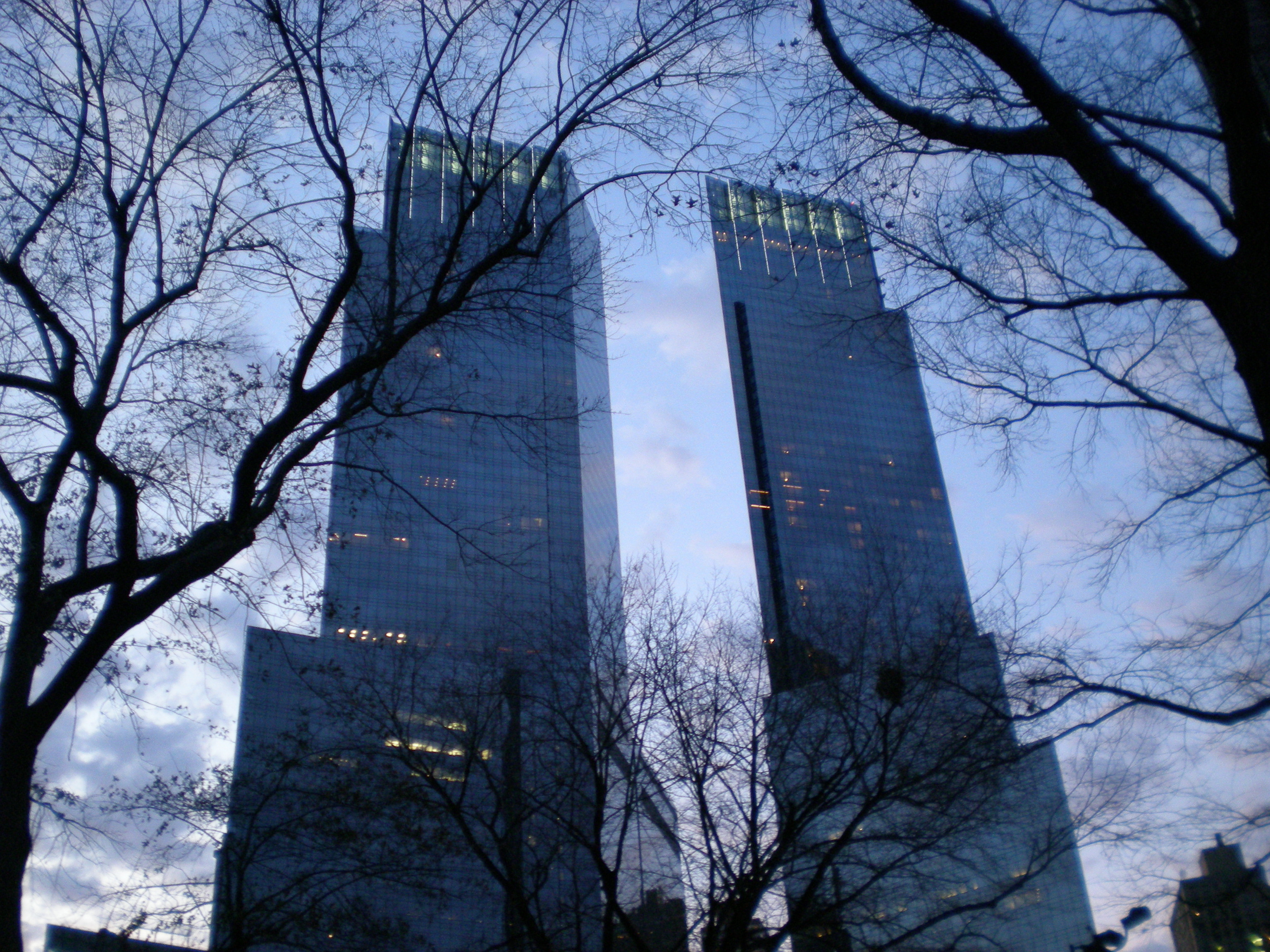 Time Warner Center from Central Park